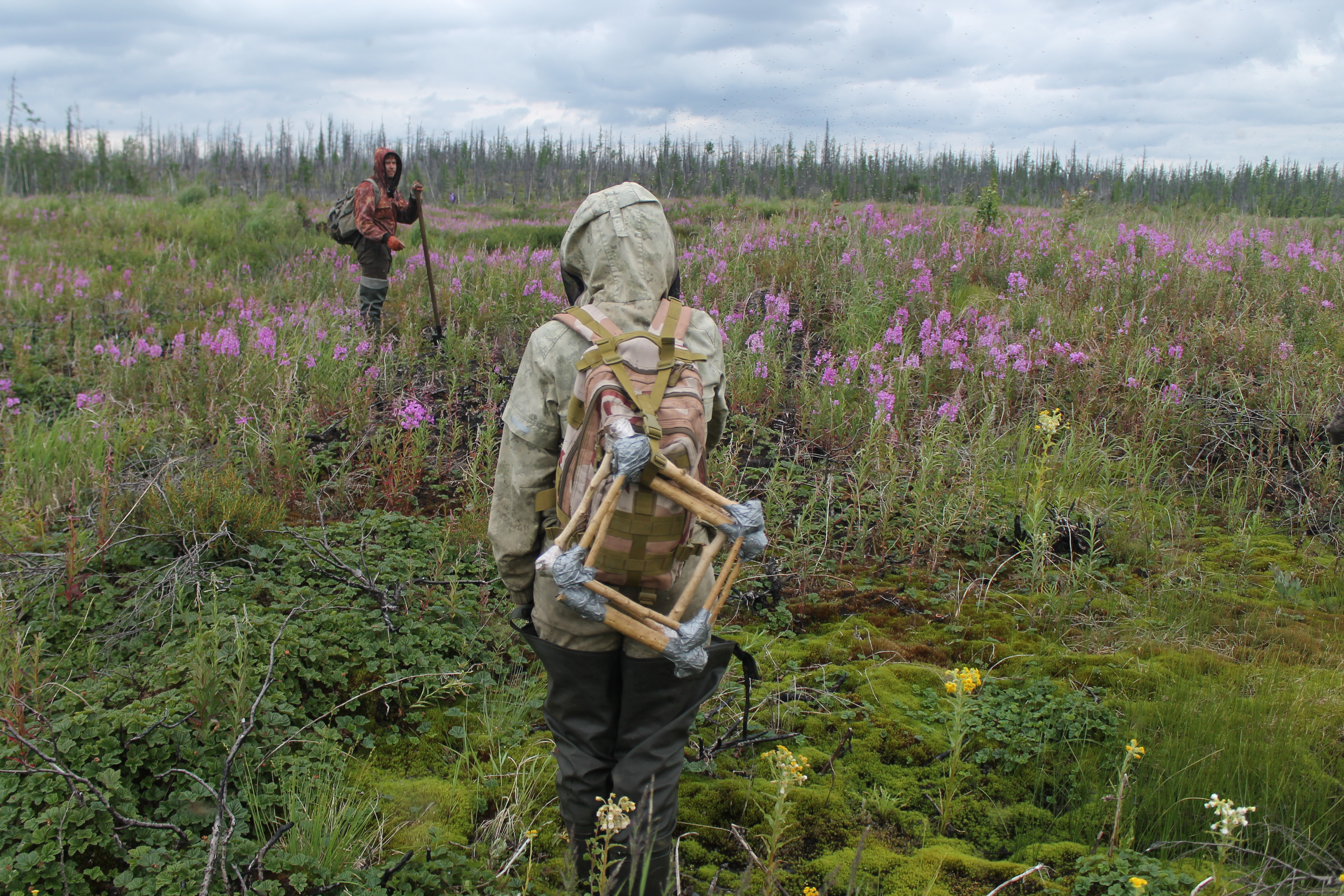 Soil scientist Dmitry Petrov (in the background) is waiting for student Daria Krasnitskaya (in the foreground). On the back of Dasha's backpack with wooden frames - an adaptation of the handicraft Dima Petrov for collecting plants from a site the size of a frame.